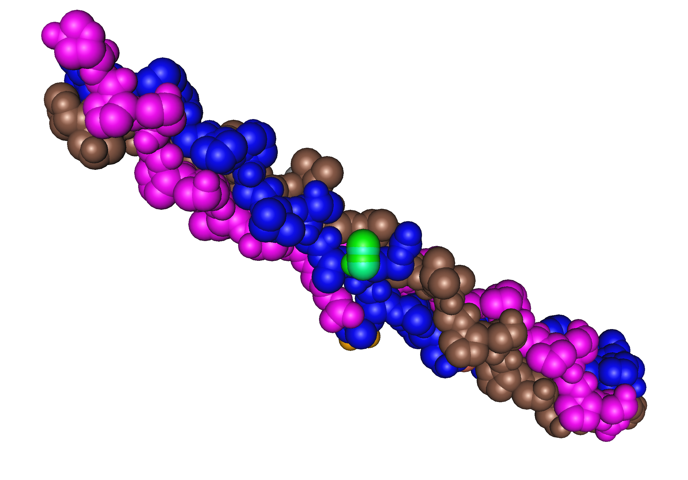 1bkv_collagen triple helix